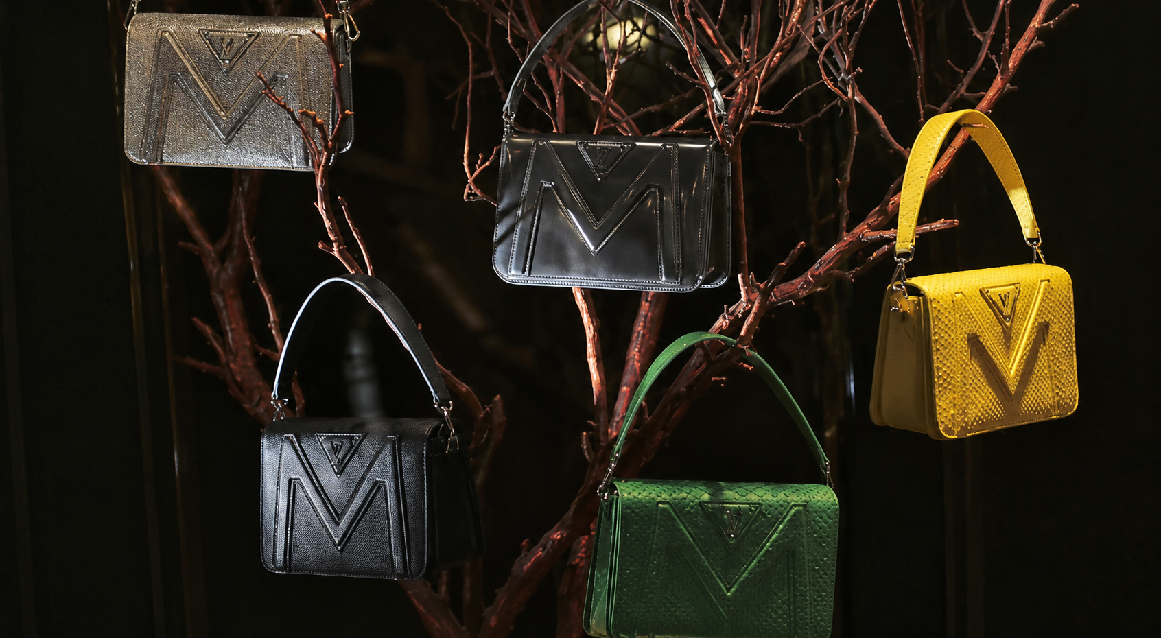 "Madonna bag", a fashion product of Michael Michalsky. This screenshoot was taken from his official Vimeo account under the license CC BY 3.0.